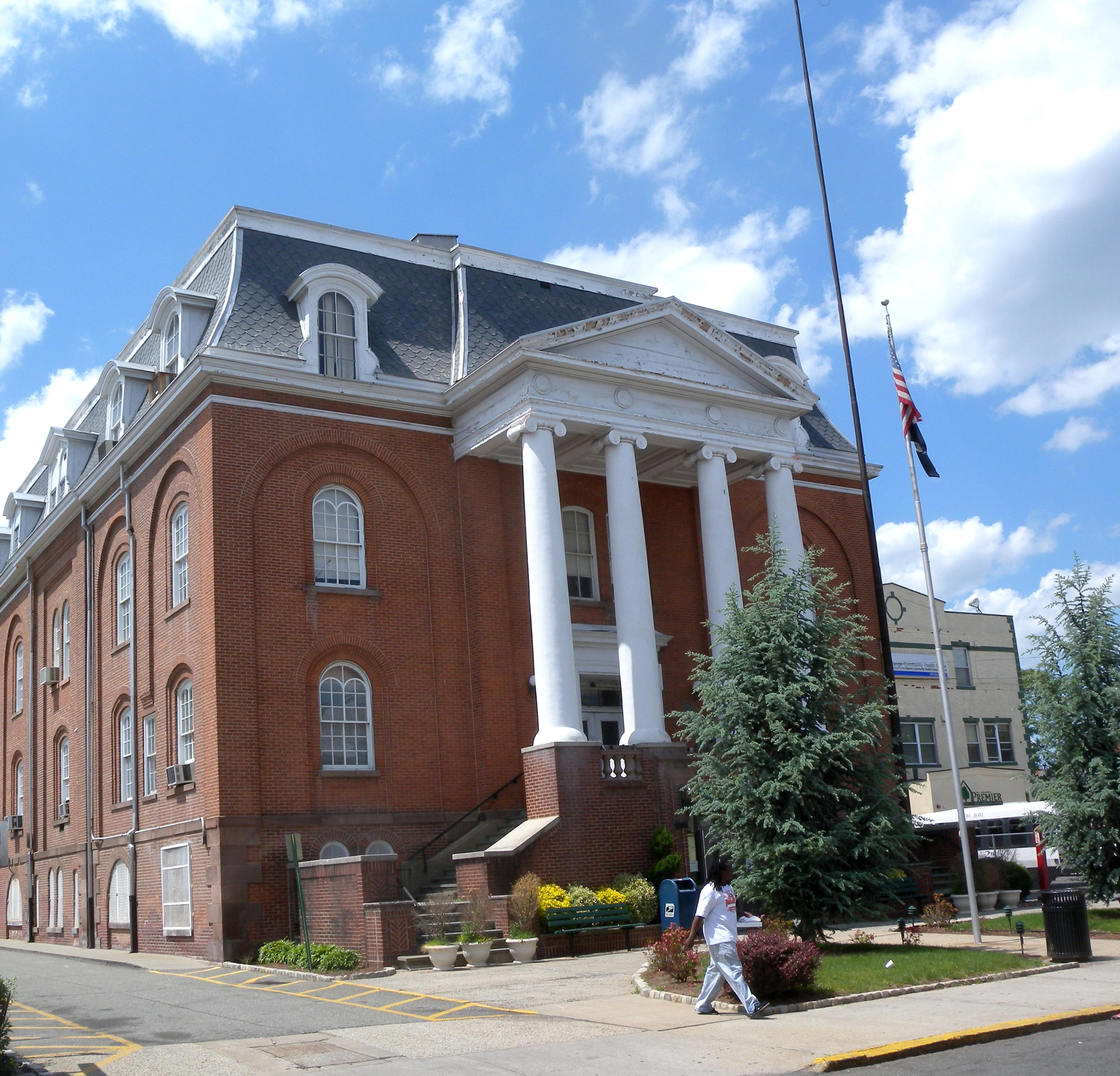 Looking northwest at Municipal Building of Orange, New Jersey on a sunny midday.